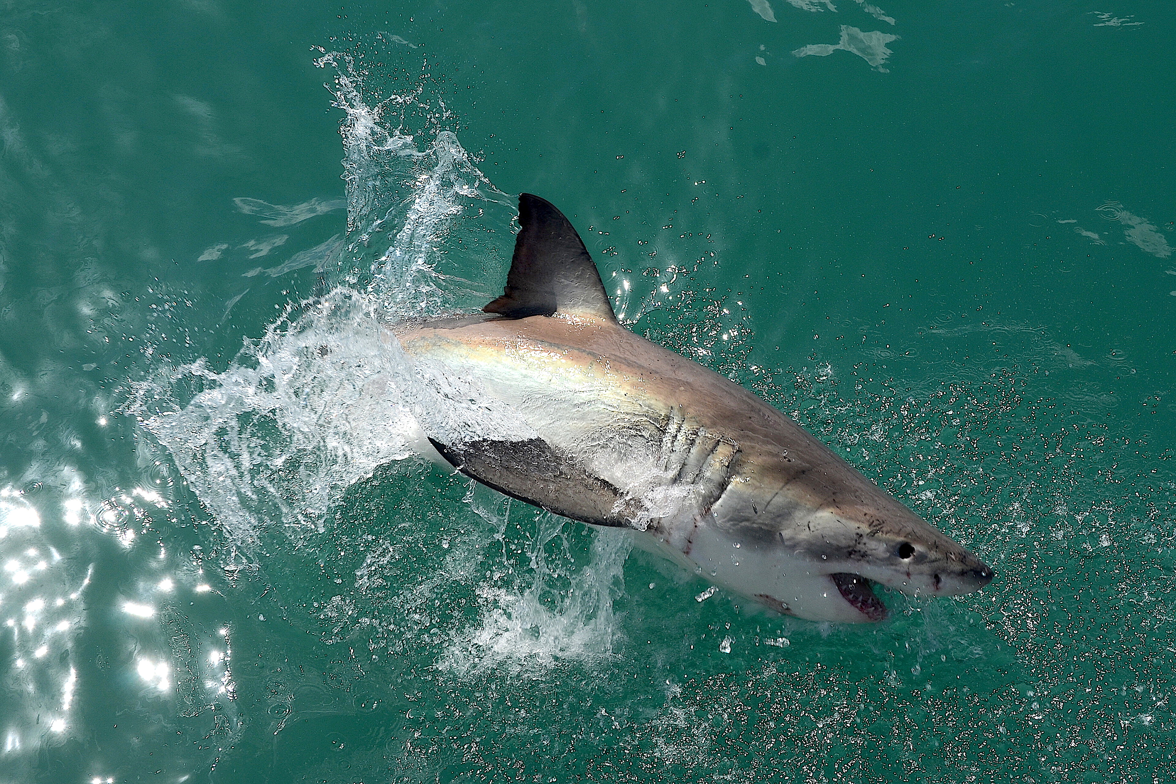 Great white shark near Gansbaai in South Africa